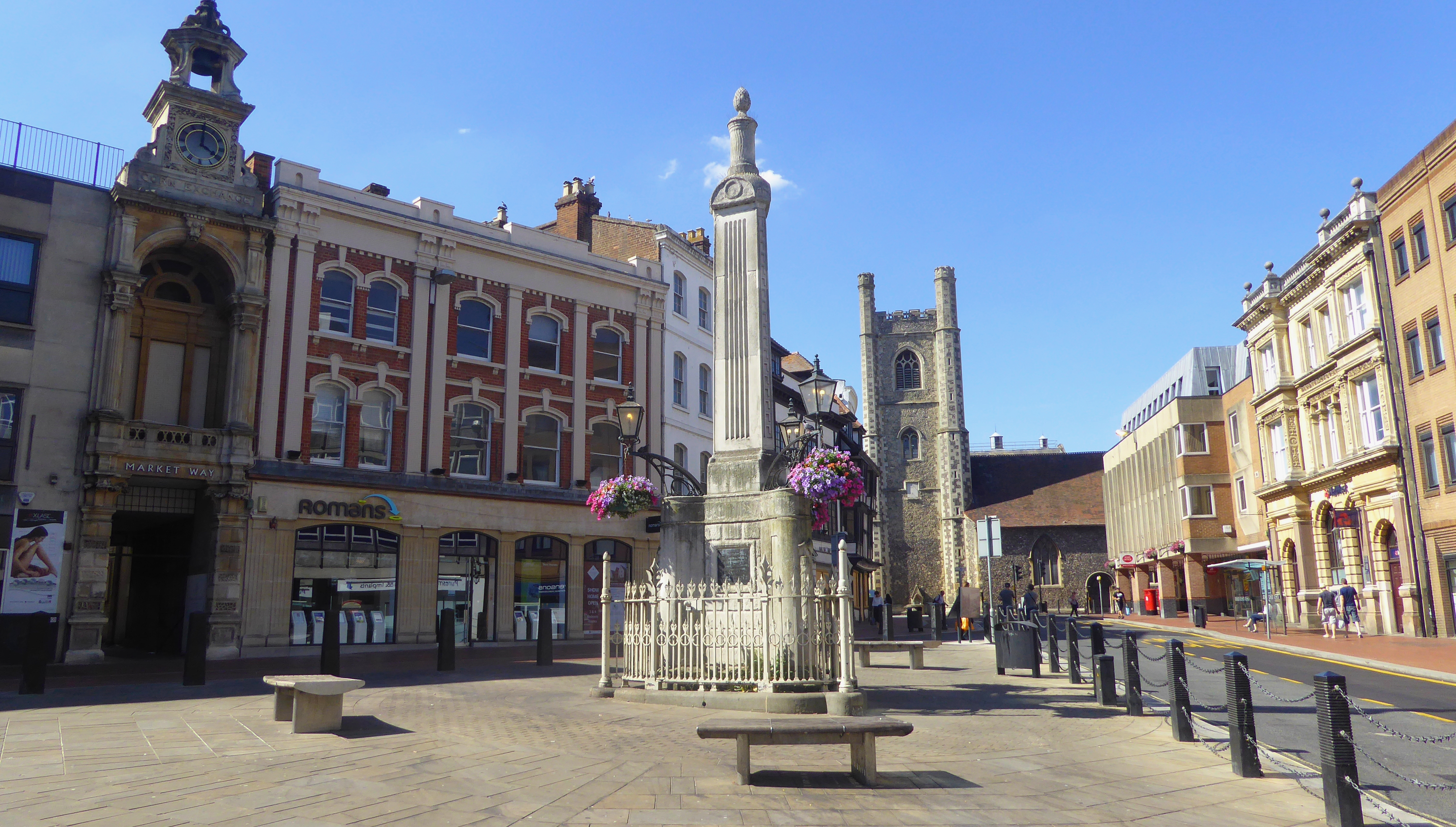 The Simeon Monument in its broader landscape context. St Laurence's Church is visible in the background.